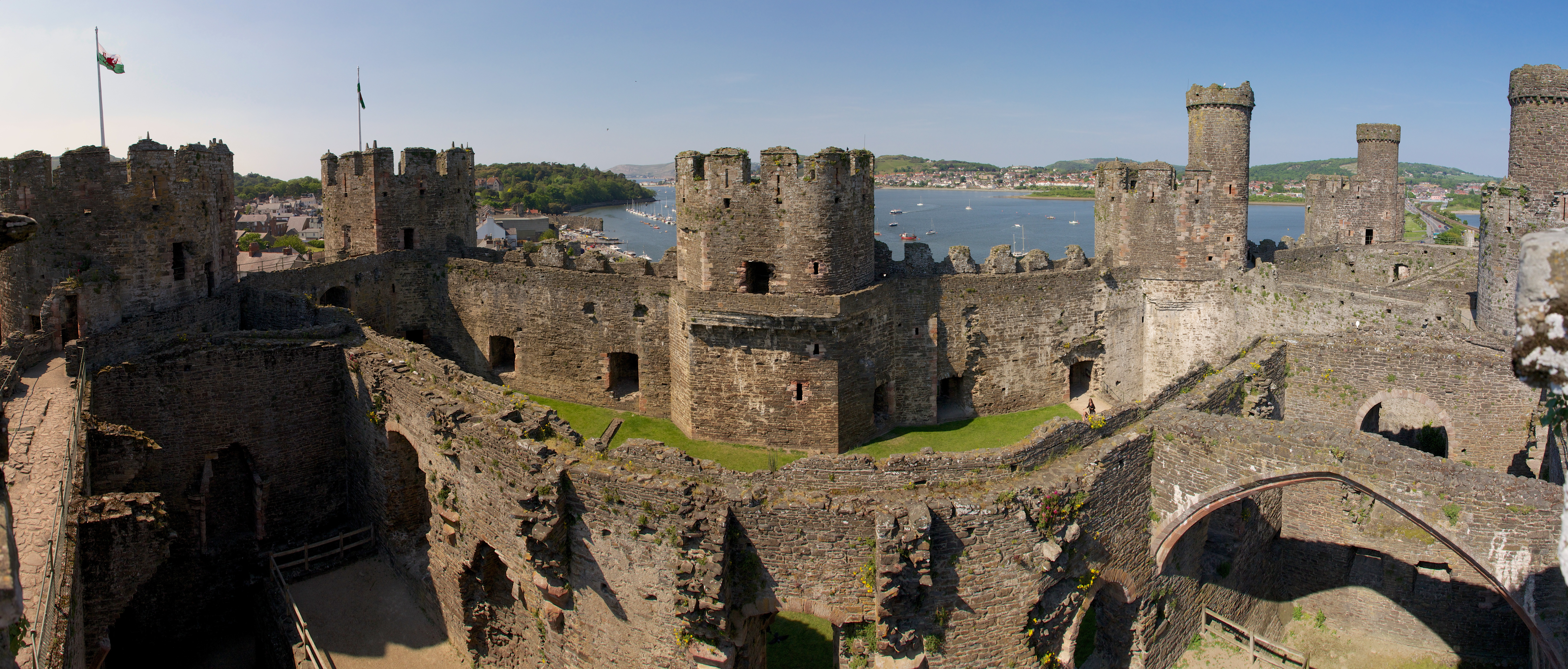 Conwy Castle.